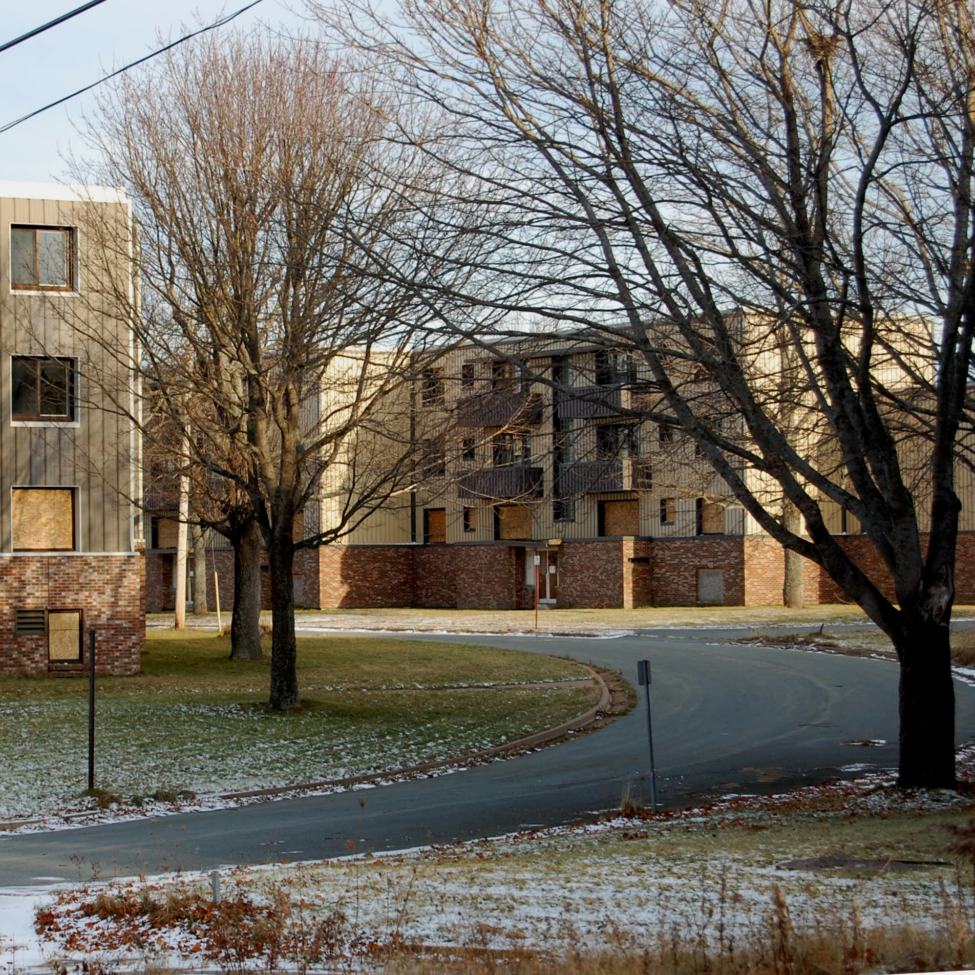 Closed buildings at Shannon Park, Dartmouth, Nova Scotia (February 2008)